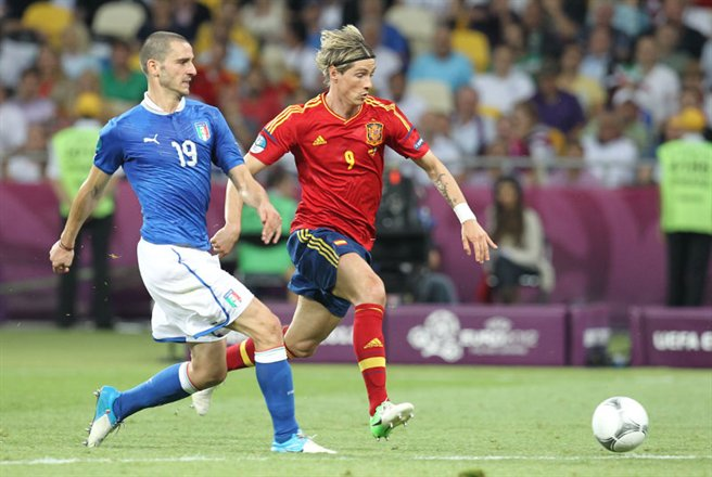 Leonardo Bonucci and Fernando Torres at Euro 2012 final Spain-Italy